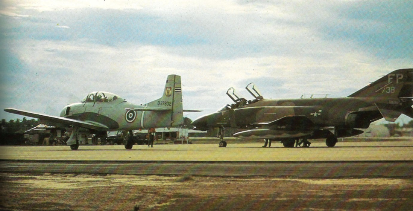 A U.S. Air Force McDonnell Douglas F-4D Phantom II (s/n 66-8738) from the 497th Tactical Fighter Squadron, 8th Tactical Fighter Wing has its weapons armed at a 'last chance' checkpoint at Ubon Royal Thai Air Force Base prior to a mission in North Vietnam in September 1972. A Royal Thai Air Force North American T-28D Trojan is also waiting for take-off. The black-bellied F-4D 66-8738 was equipped with AN/ARN-92 LORAN-D equipment (note antenna) and was one of only two F-4Ds fitted with the AVQ-11 Pave Sword precision attack sensor. However, it was shot down by a North Vietnamese Mikoyan-Gurevich MiG-21 with an Atoll-missile on 5 October 1972. The crew was taken prisoner but was released in 1973. The Thai T-28D (former U.S. Navy T-28B, BuNo 137802) was preserved at the RTAFB Phitsanulok, painted as "46101".